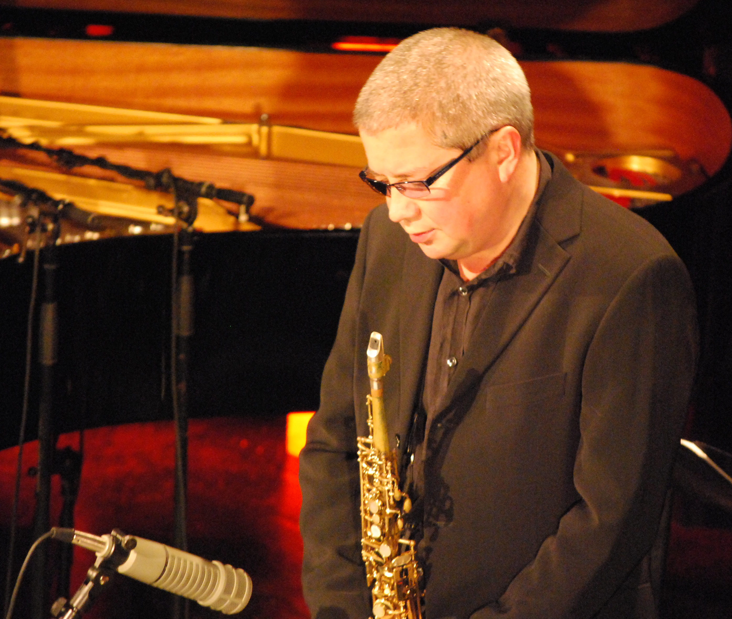 Andy Sheppard, Treibhaus Innsbruck 2009, concert with Carla Bley